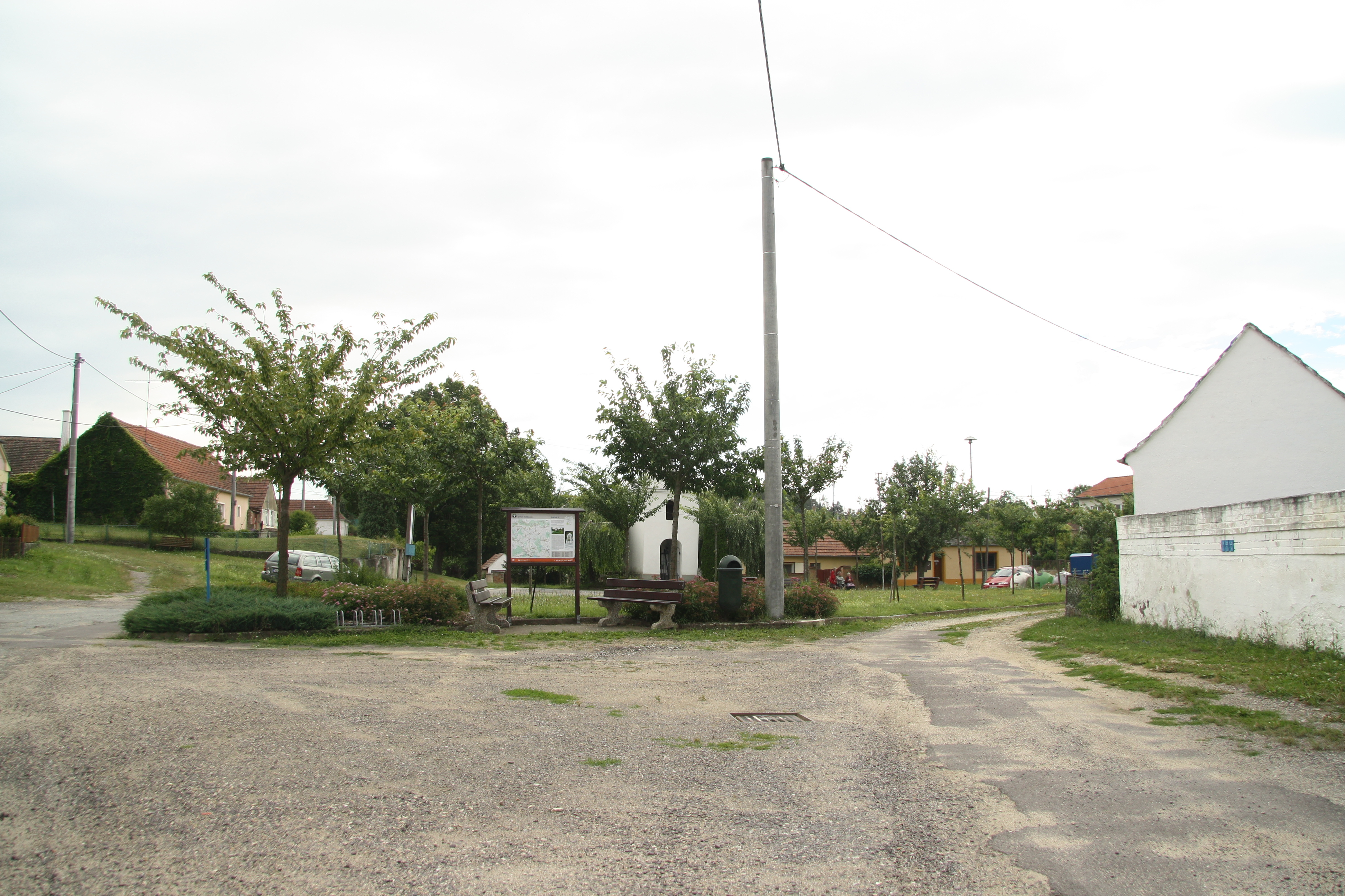 Center of Rudlice, Znojmo District.